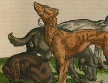 Conrad Gesner - Viviparous Quadropeds - Book 1